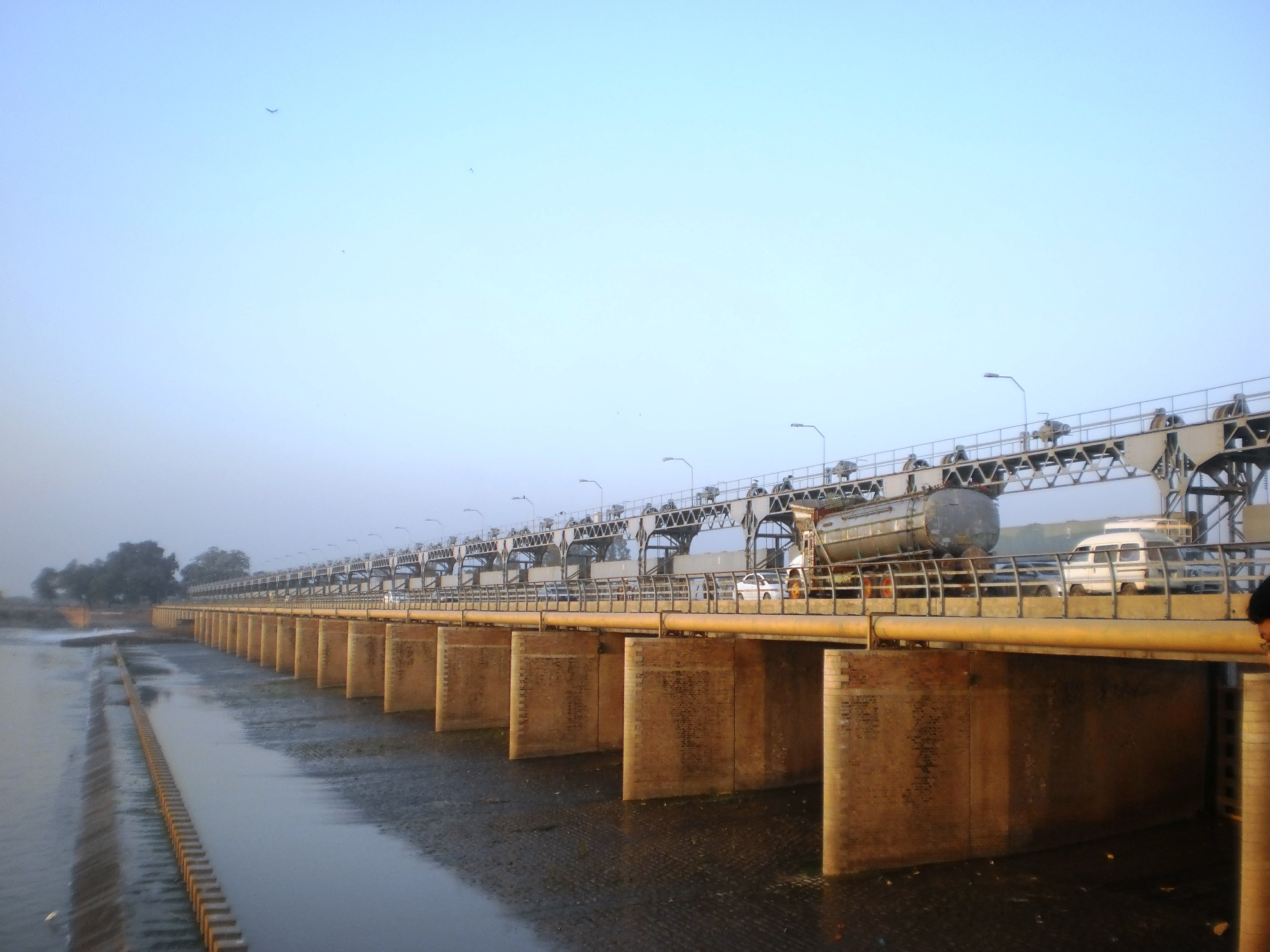 Full view of Head Balloki